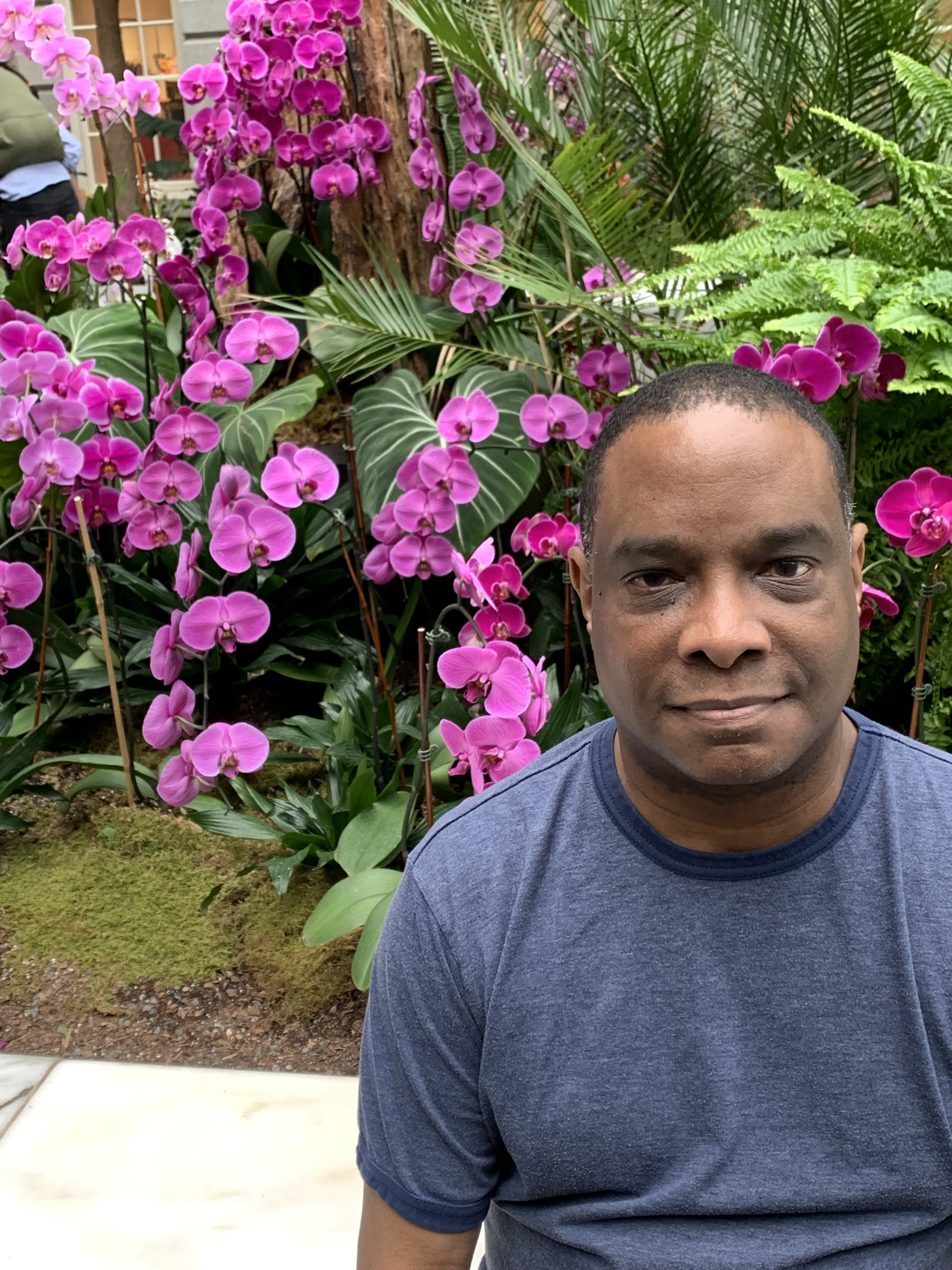 A photo of Craig Laurance Gidney